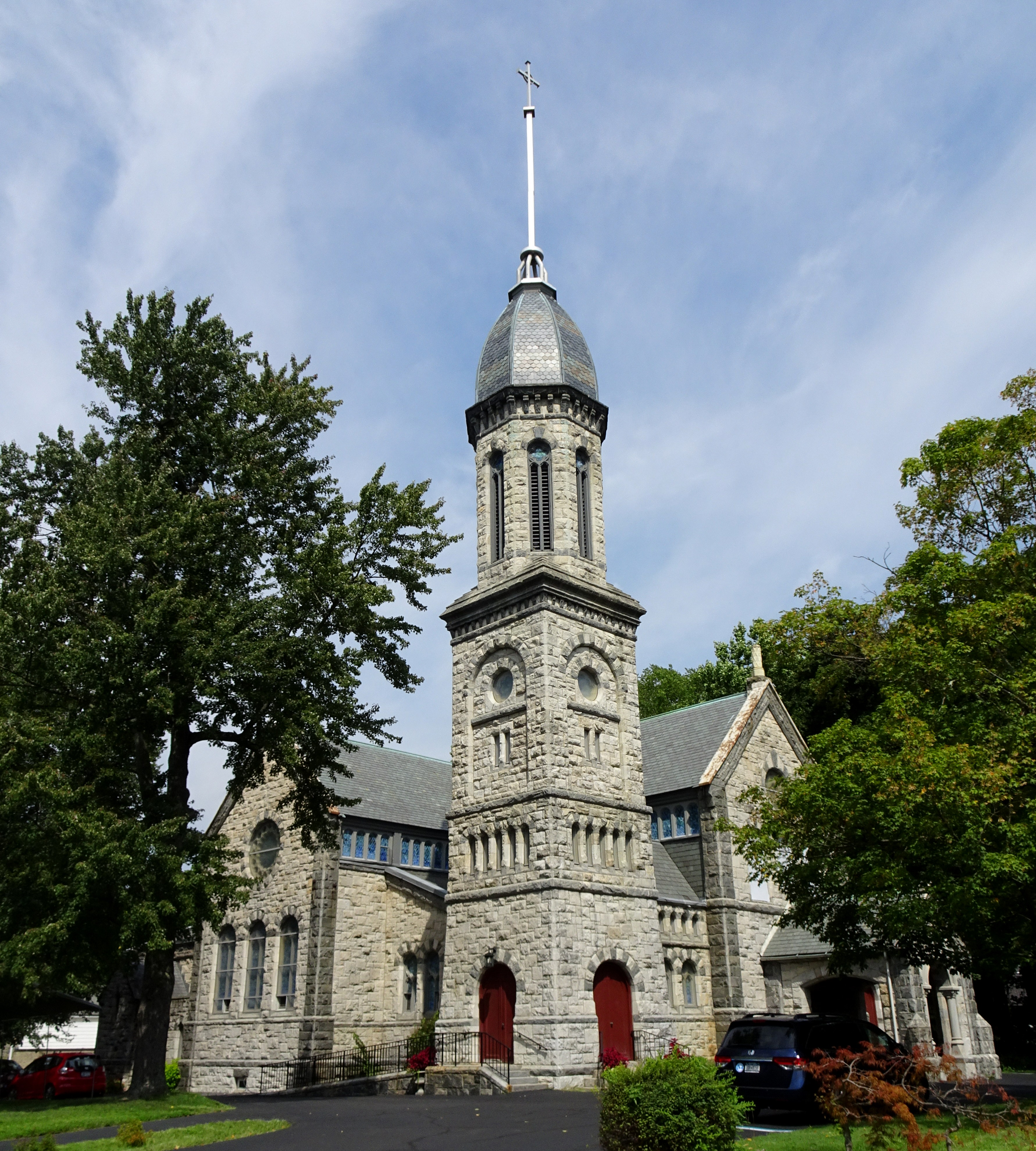 Looking north at Tarrytown Presbyterian on a mostly sunny midday